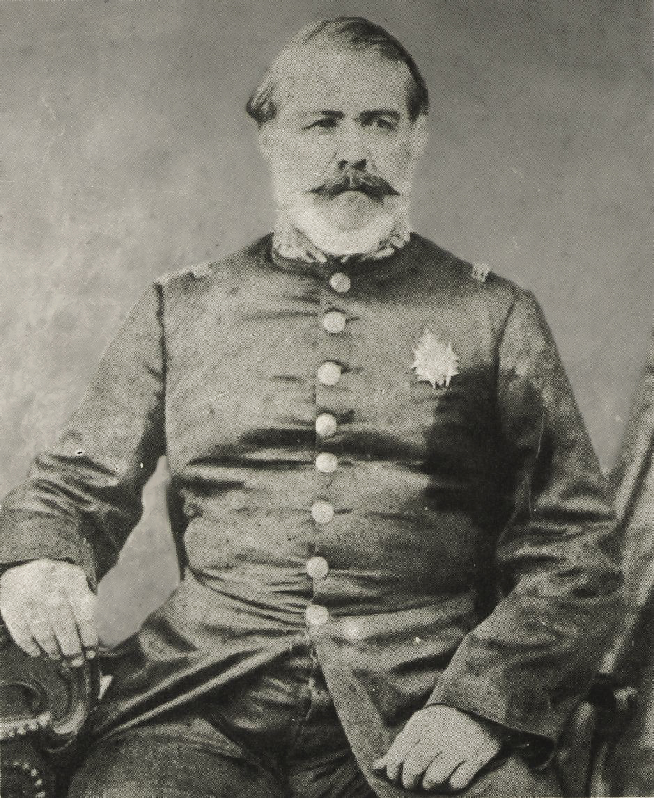 Luís Osório, Marshall of the Army of the Empire of Brazil, hero of the War of the Triple Alliance, Plate War, Brazil-Argentine War and Brazilian War of Independence.